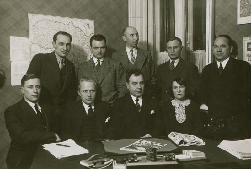 Board of the Lithuanian Journalists' Union. Sitting, from left: V. Rastenis, E. Turauskas. J. Purickis (chairman), J. Gerulaitytė; standing, from left: J. Paleckis, A. Gricius, J. Kardelis, V. Kemežys, A. Bružas.